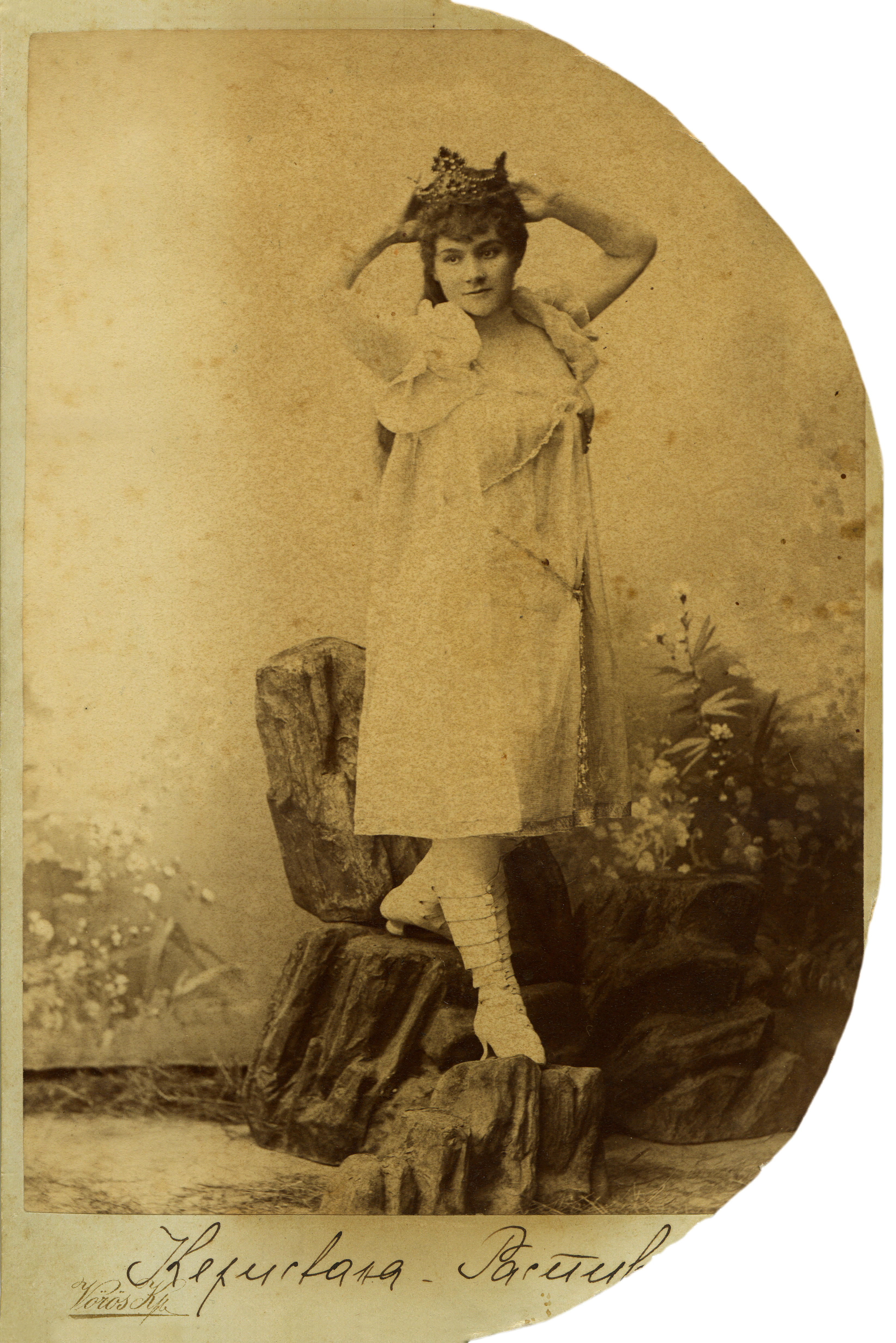 Milka Marković in costume of Keristana at the play: "Der Verschwender" by Ferdinand Raimund, Photo Studio by Kalman Vereš, Subotica, approx. 1895 Srpski (latinica): Milka Marković u kostimu Keristane u komadu: "Raspikuća", F. Rajmunda, Atelje Kalmana Vereša, Subotica, oko 1895. Српски (ћирилица): Милка Марковић у костиму Керистане у комаду: "Распикућа" Ф. Рајмунда, Атеље Калмана Вереша, Суботица, око 1895.